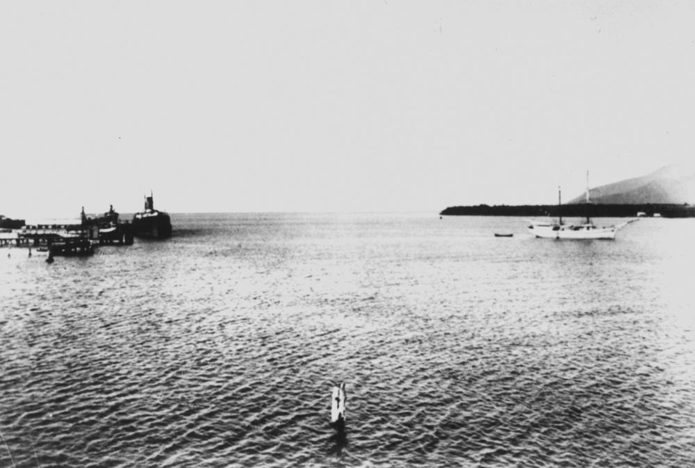 Fearless (ship) Black-birding ship. Last of the black-birders to come to Cairns. (Description supplied with photograph).